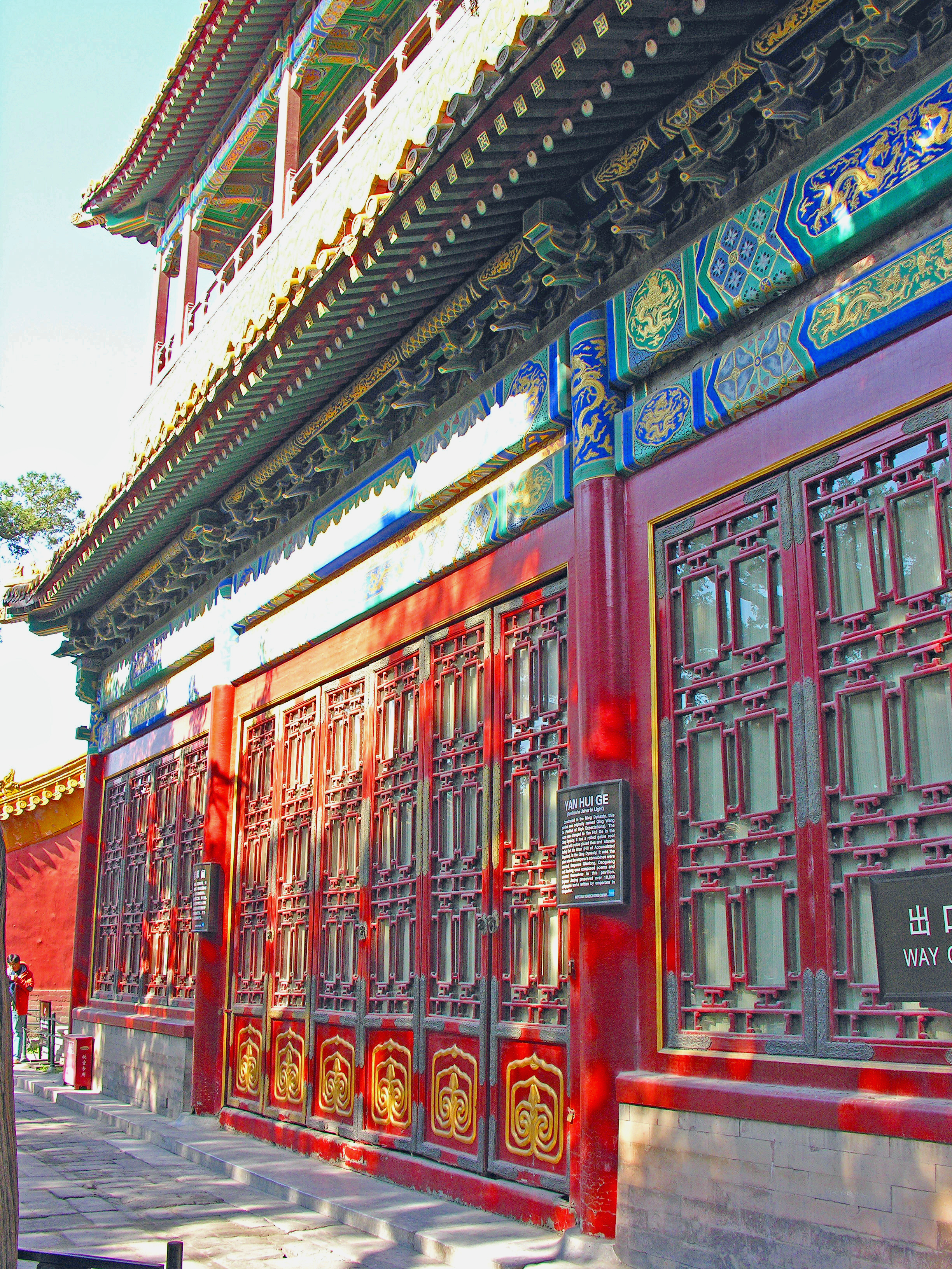 Pavilion to Usher in Light In the Qing Dynasty, it was the place where the emperor’s concubines were selected.